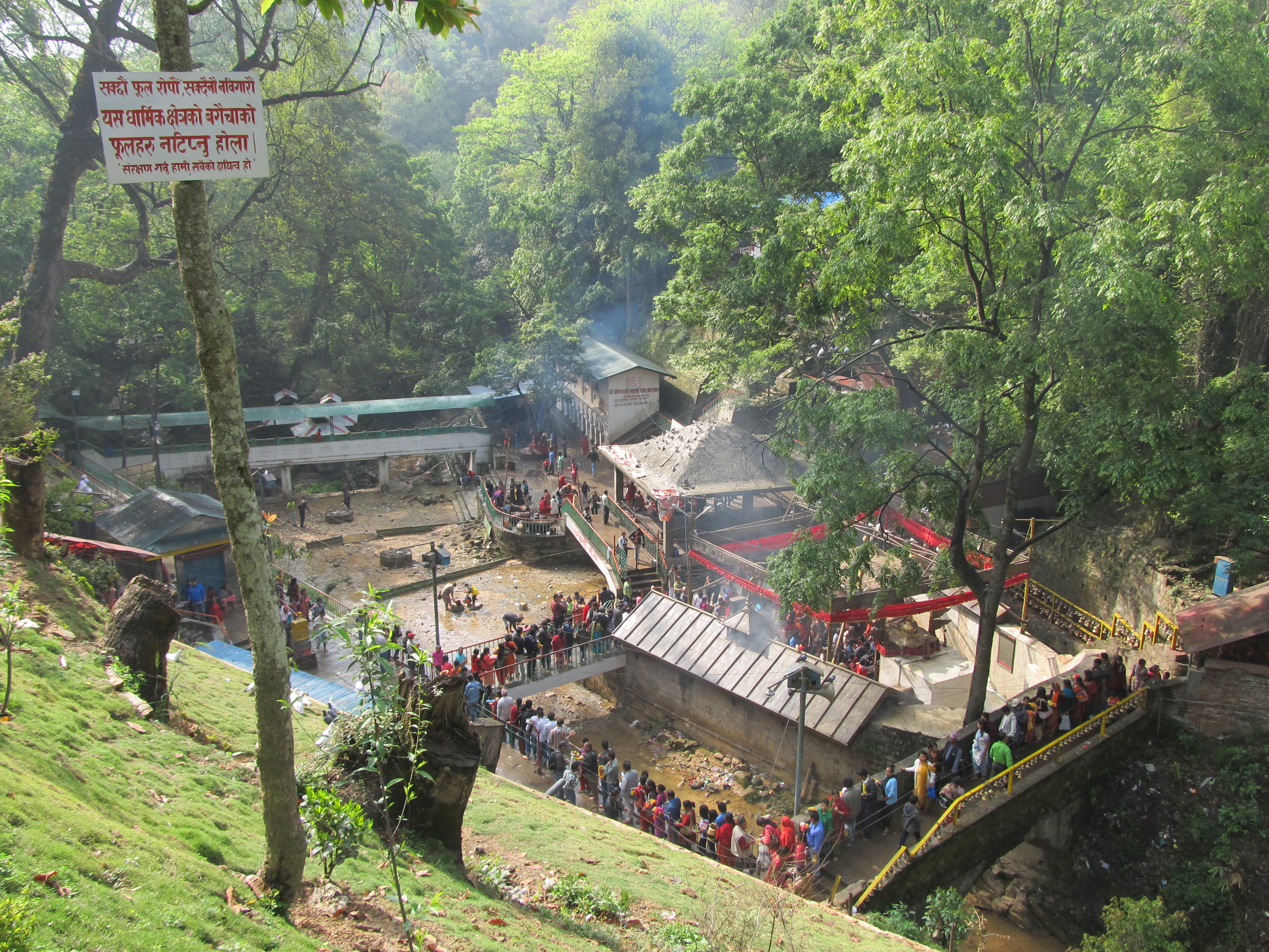 Nepali New Year's Eve in Dakshinkali, Pharping, twenty km south of Kathmandu